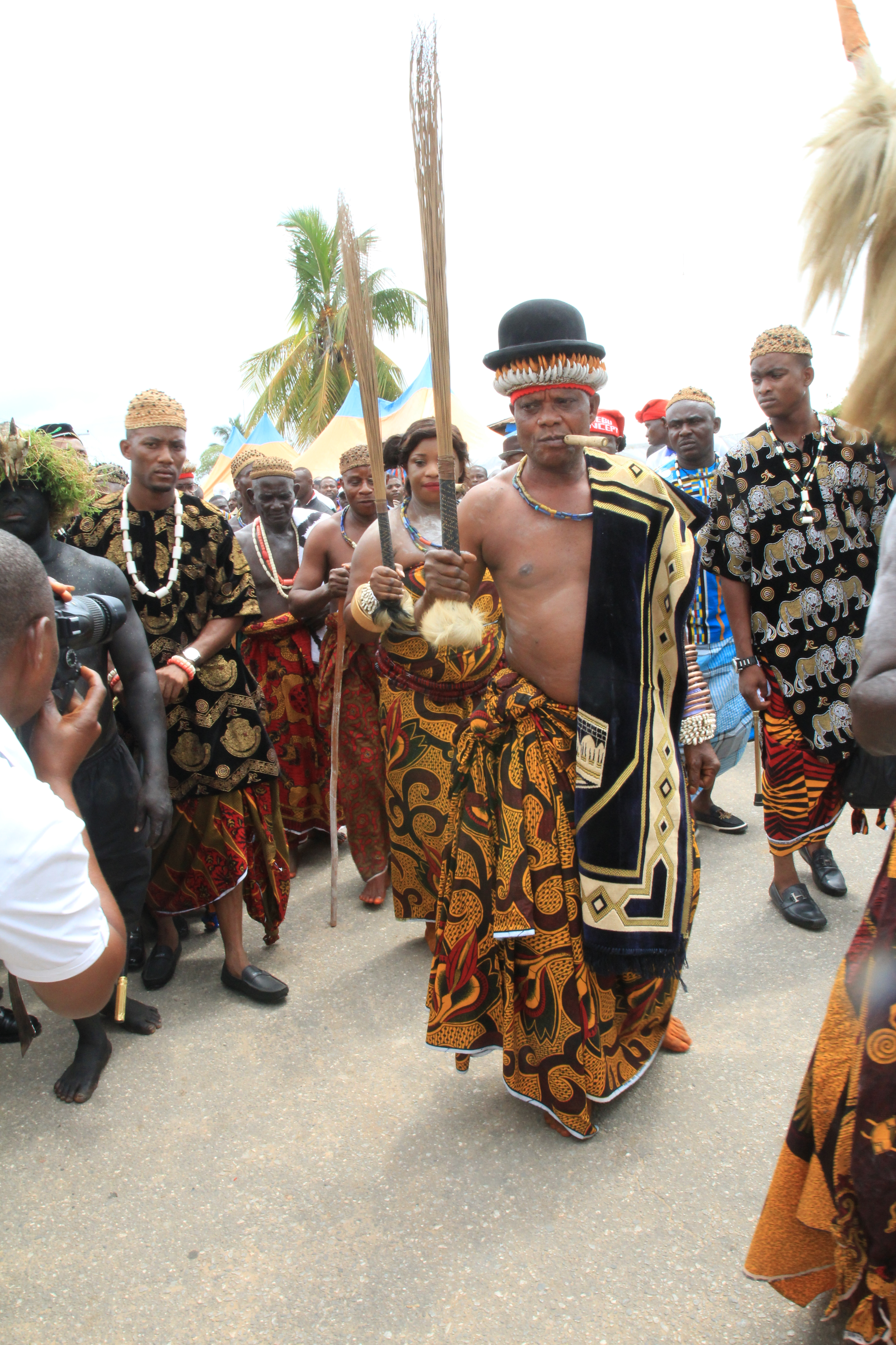 The Ceremony of the Coronation and Presentation of the new Obol Ofem Ubana Eteng Usukali, Obol Lopon of Ugep, Yakurr, Cross River State to the people. This is an image of Cultural Fashion or Adornment from Nigeria